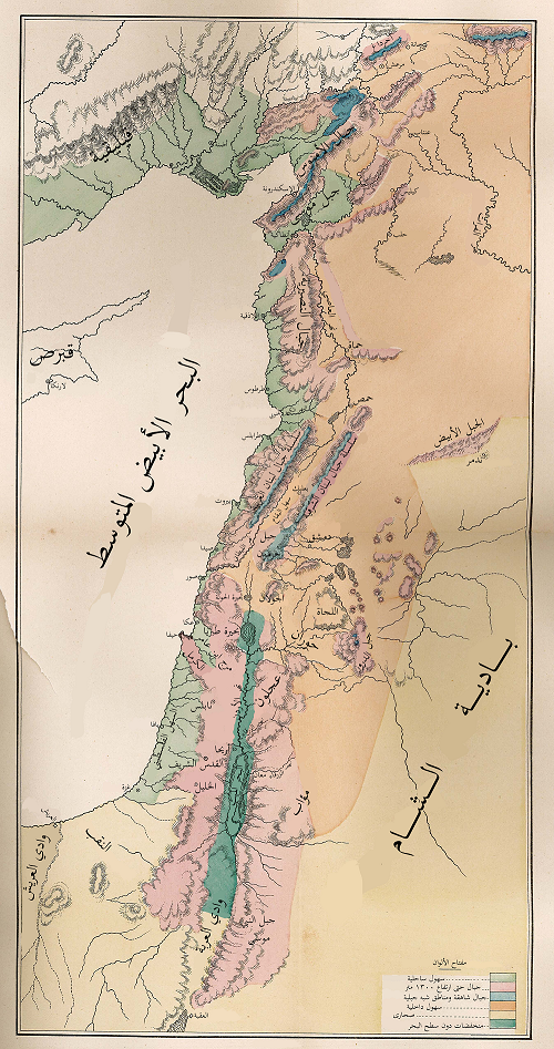 Map of the Levant (Natural or greater Syria) in Arabic. Remade map from an original found in the book: Flora of Syria Palestine and Sinai: a handbook of the flowering plants and ferns native and naturalized from the Taurus to Ras Muhammad and from the Mediterranean Sea to the Syrian desert.